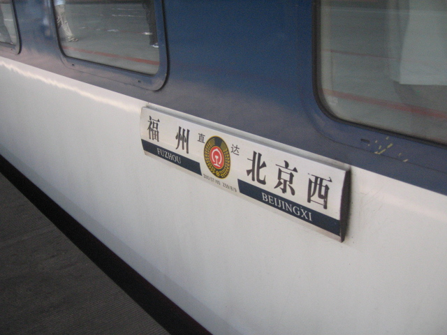 Information board on Fuzhou-Beijing Express Train (YW25T 677044).